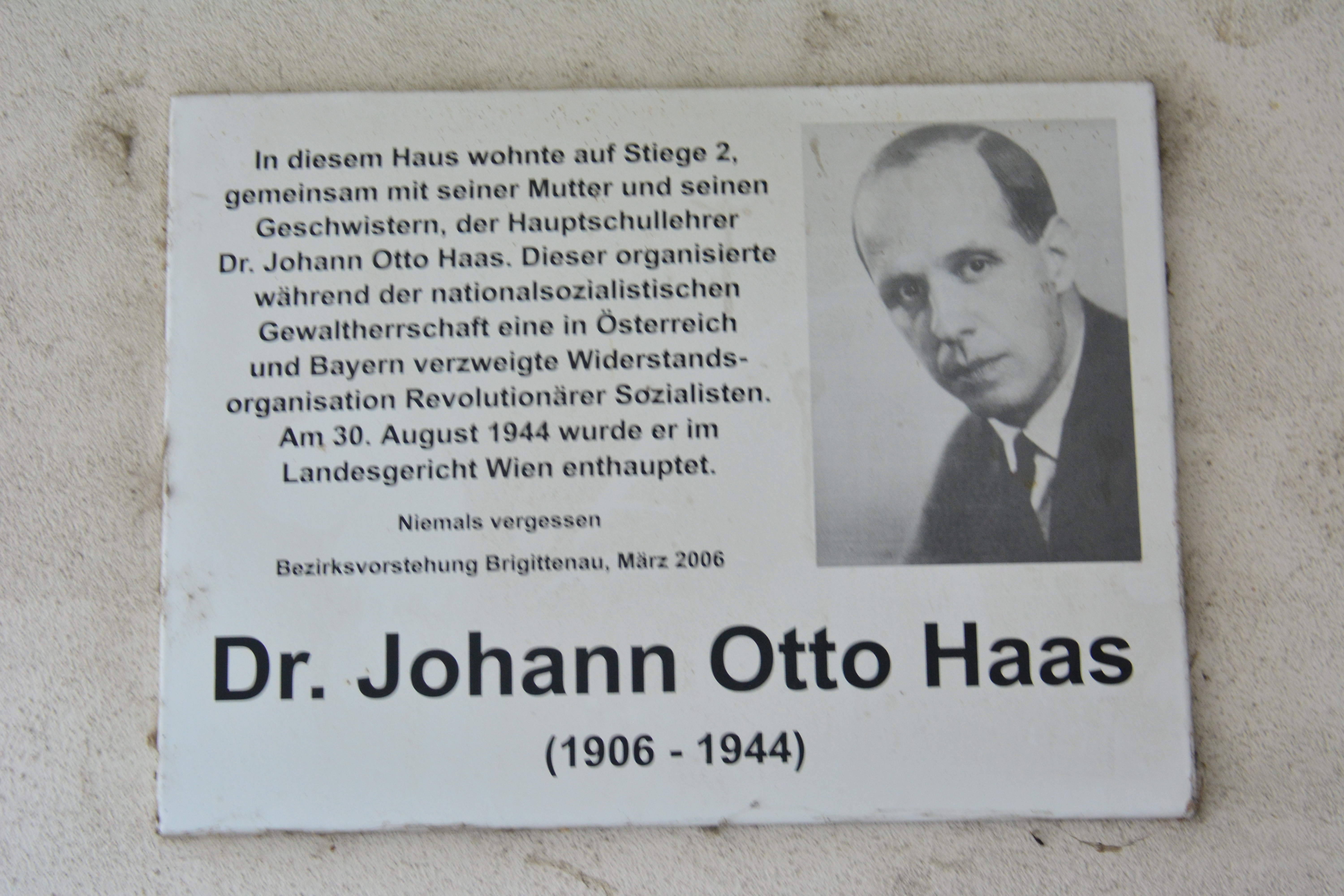 Memorial plaque to Johann Otto Haas